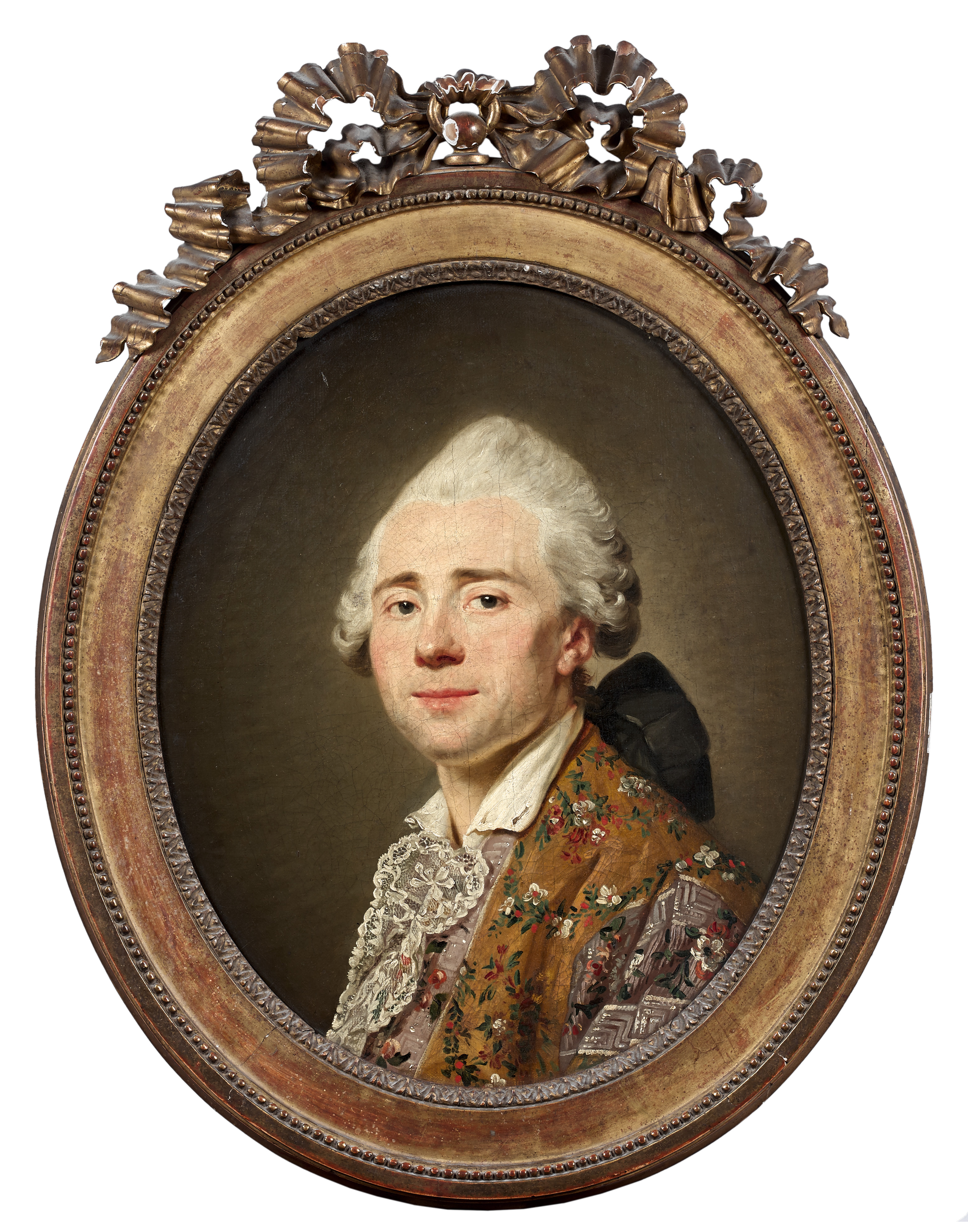 Etienne AUBRY, Versaille, France, 1745 - 1781 - Portrait dit de l'acteur François René Molé (1734-1807) - huile sur toile